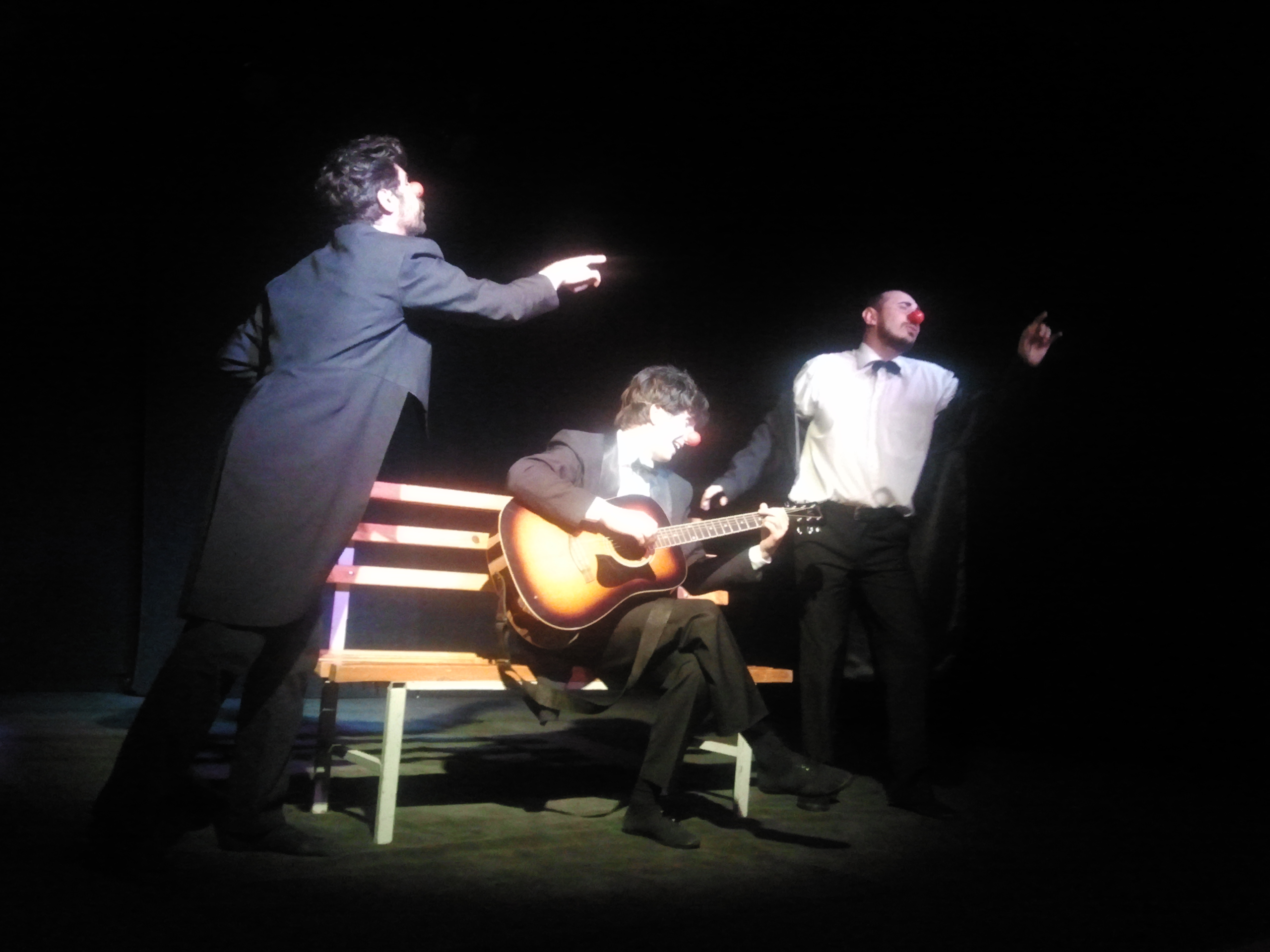 Bouquet of Pantomime (Spectacle of Azerbaijan State Pantomime Theatre, 11 October 2015)